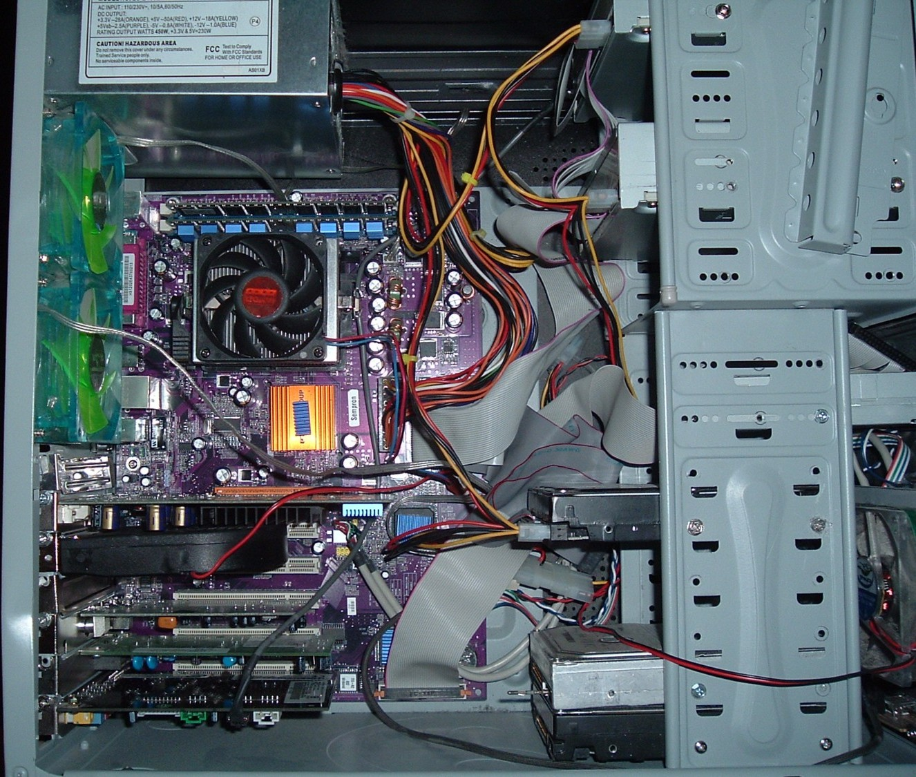 Inside my computer.